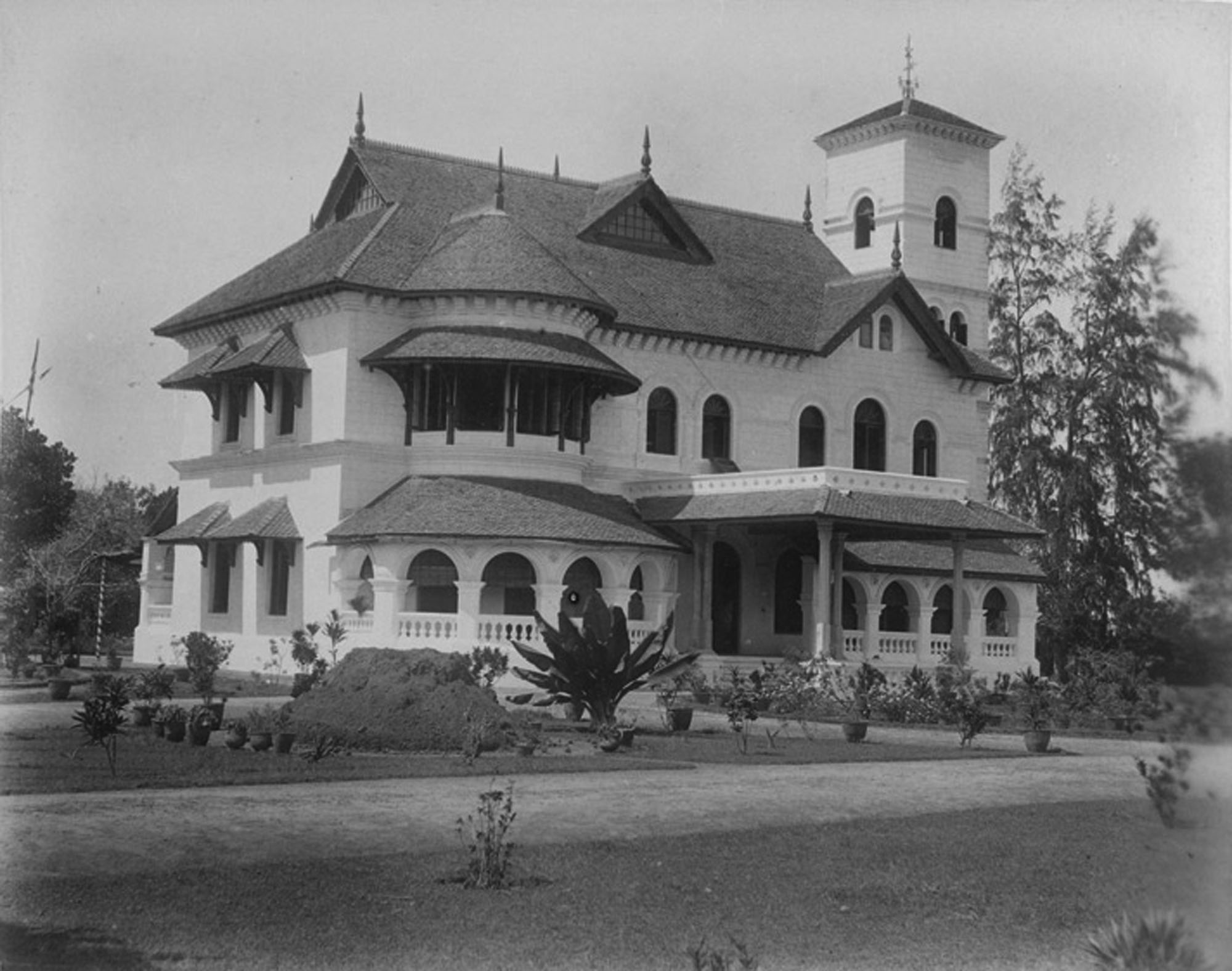 Photograph taken about 1900 by the Government photographer, Zacharias D'Cruz of a general view of the substantial residence of the Maharaja of Travancore at Thevalli in Quilon town. It is one of 76 prints in an album entitled 'Album of South Indian Views' of the Curzon Collection. George Nathaniel Curzon was Under Secretary of State at the Foreign Office between 1895-98 and Viceroy of India between 1898-1905. The palace shown here was built in the European style with a square tower. This image falls into the public domain as it was taken in India prior to 1 January 1951, and was not published in India after that date. It is in public domain in the United States as well as it was taken prior to 1 January 1951.